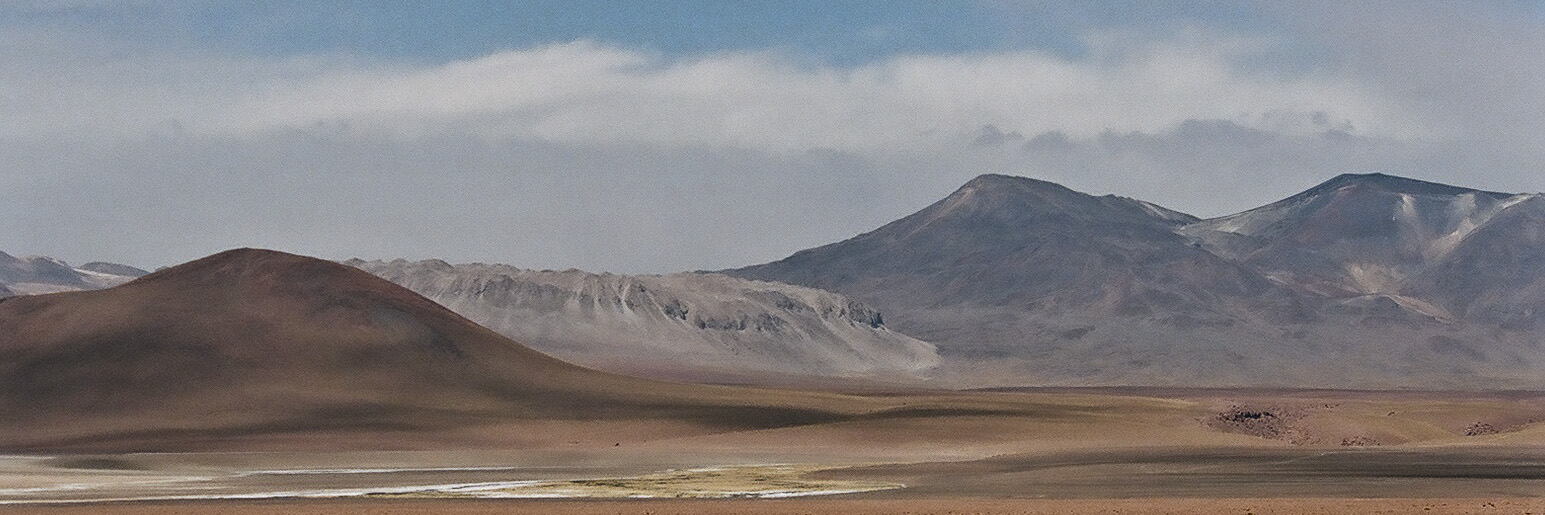 Andes North of San Pedro de Atacama